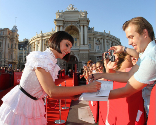 Odessa International Film Festival 2012. Jamala